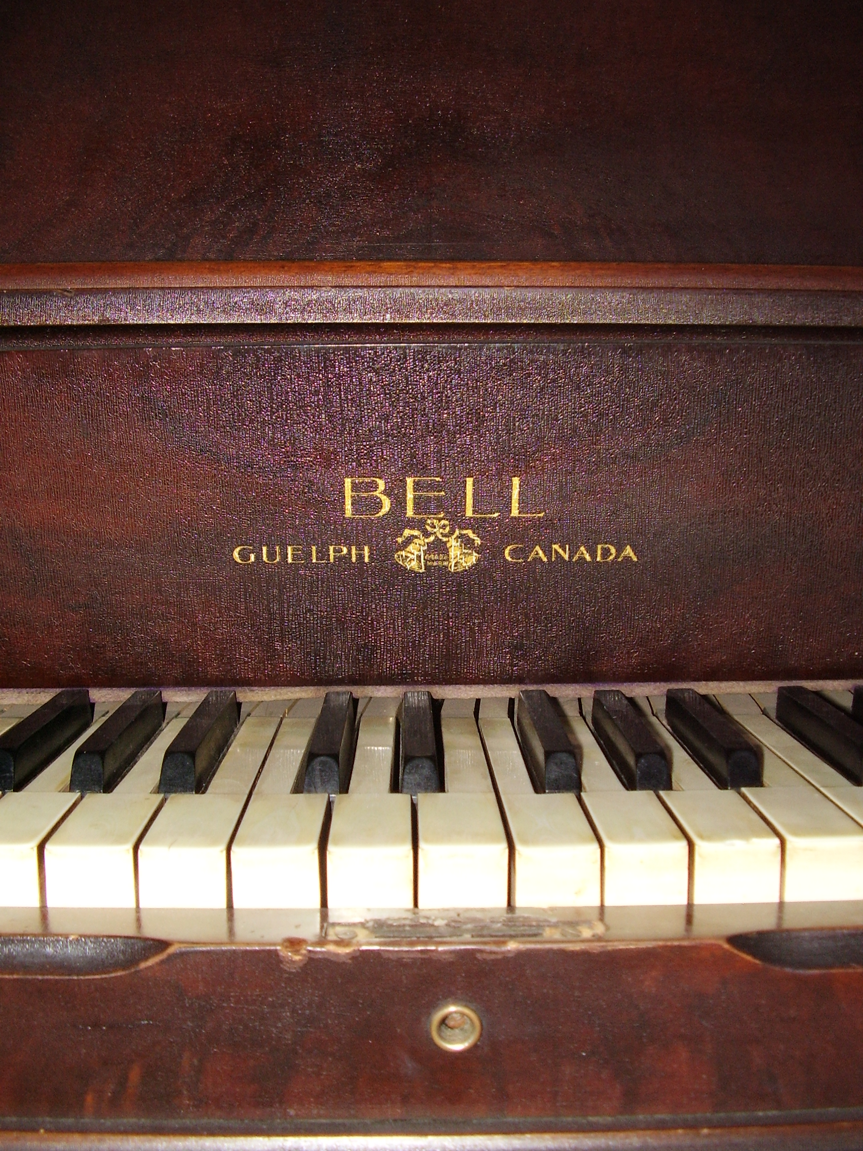 Piano keyboard, detail, manufacturer's name. Bell Piano and Organ Co. (defunct), Guelph, Ontario, Canada. Best shot of the maker's name, for colour & clarity; shows good detail on the woodgrain, gold lettering, & surface finish. Also shows some nice detail on the ebony & ivory keys, but will upload better detail shots of that.